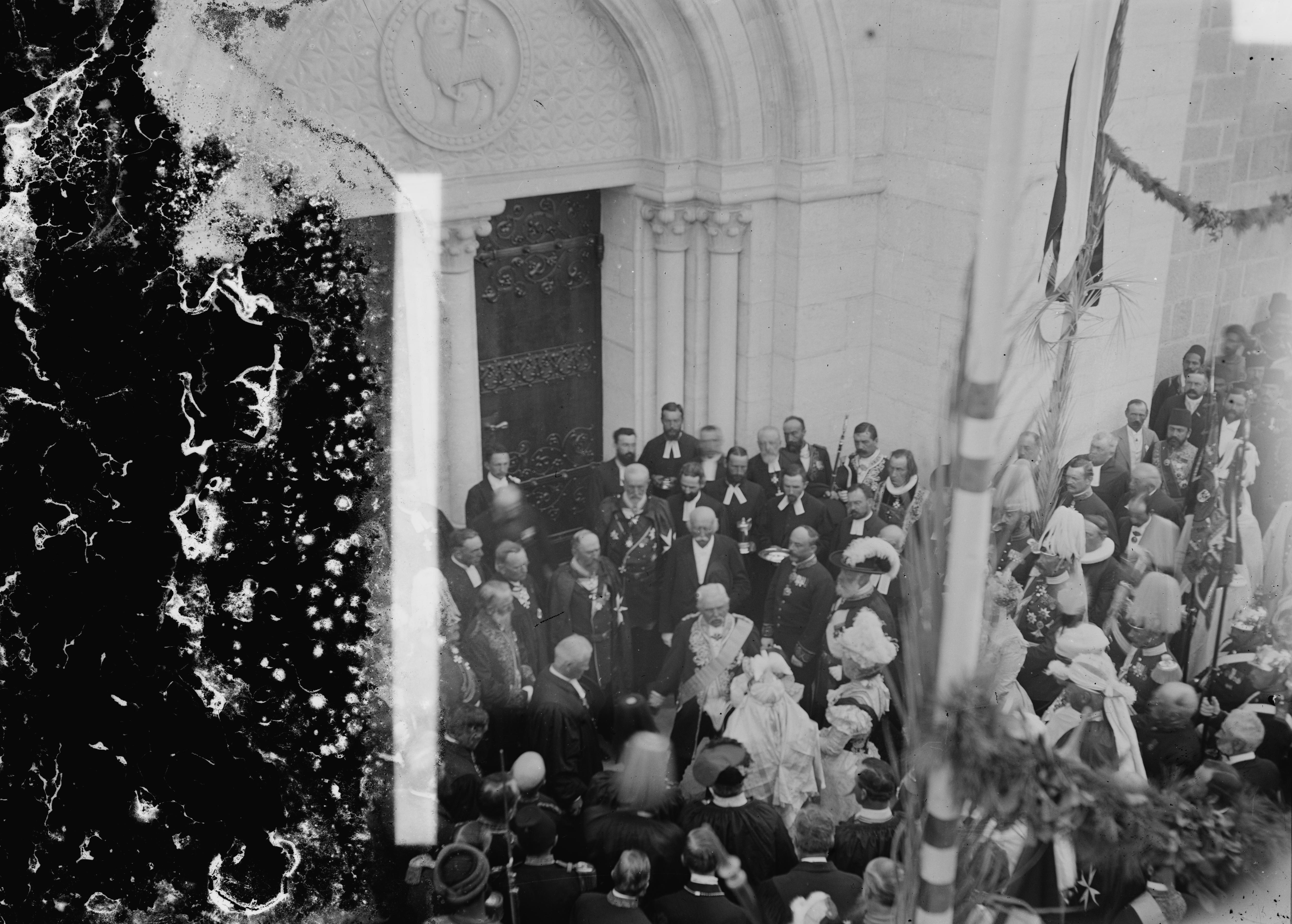 State visit to Jerusalem of Wilhelm II of Germany in 1898. Emperor and Empress.